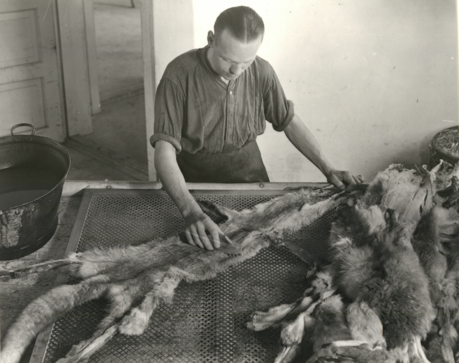 Furrier at work in Denmark. Picture taken August 8, 1945Dansk: Buntmager. Billede fra Nationalmuseet, 8. august 1945